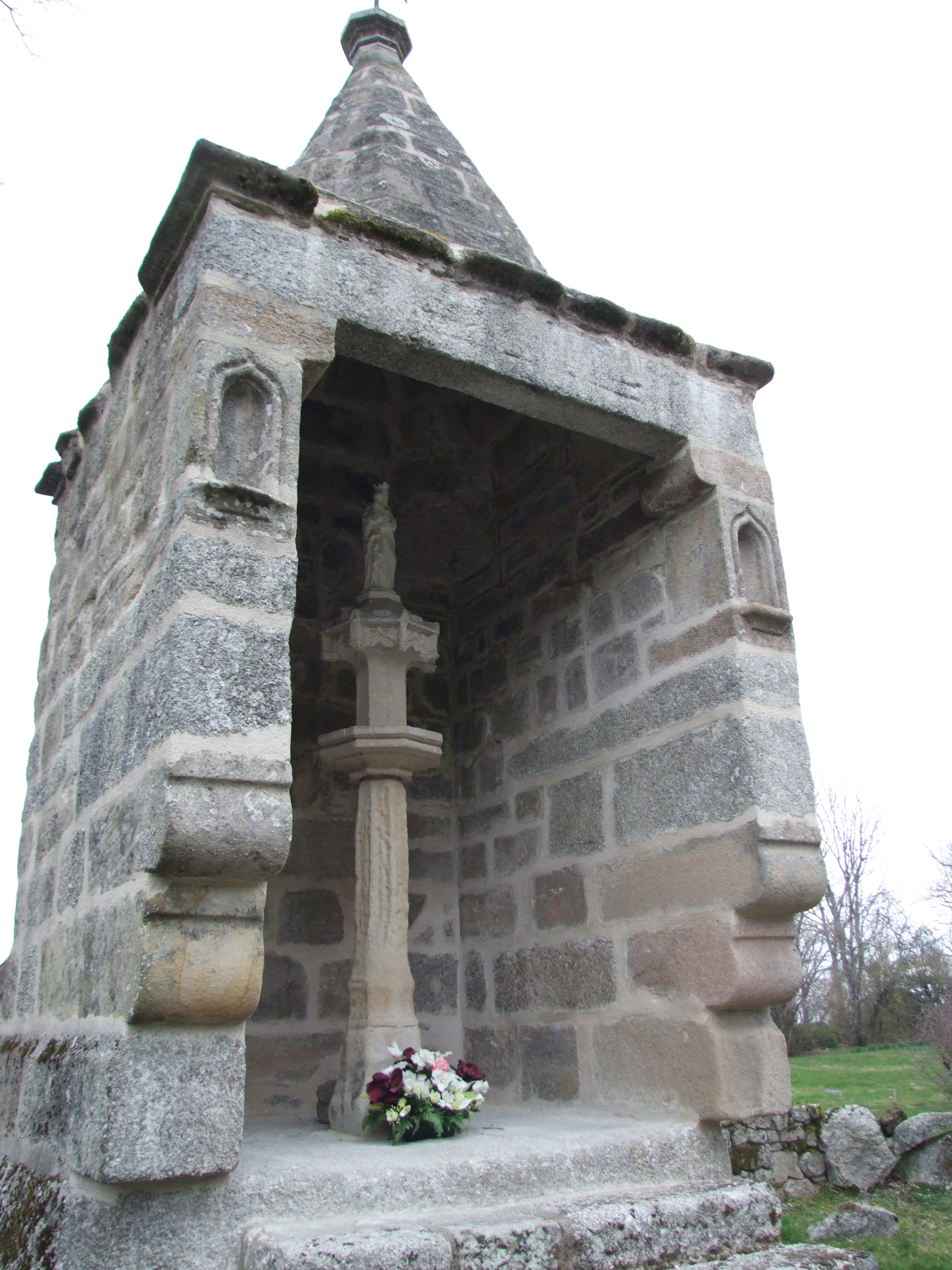 Uchon, Burgundy, FRANCE